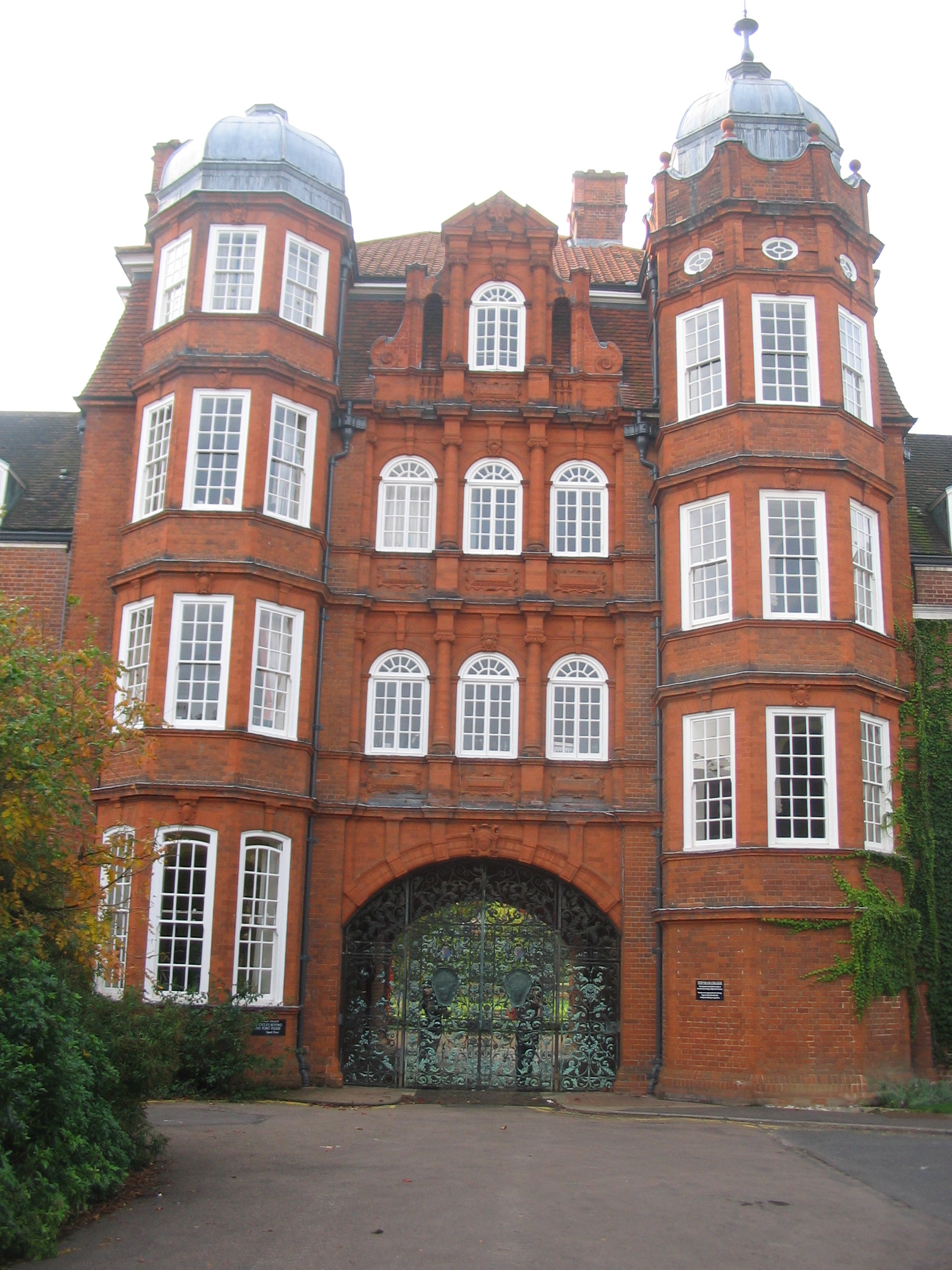 Pfeiffer Arch - The original main entrance to the college before the Porters' Lodge moved to Sidgwick Avenue.